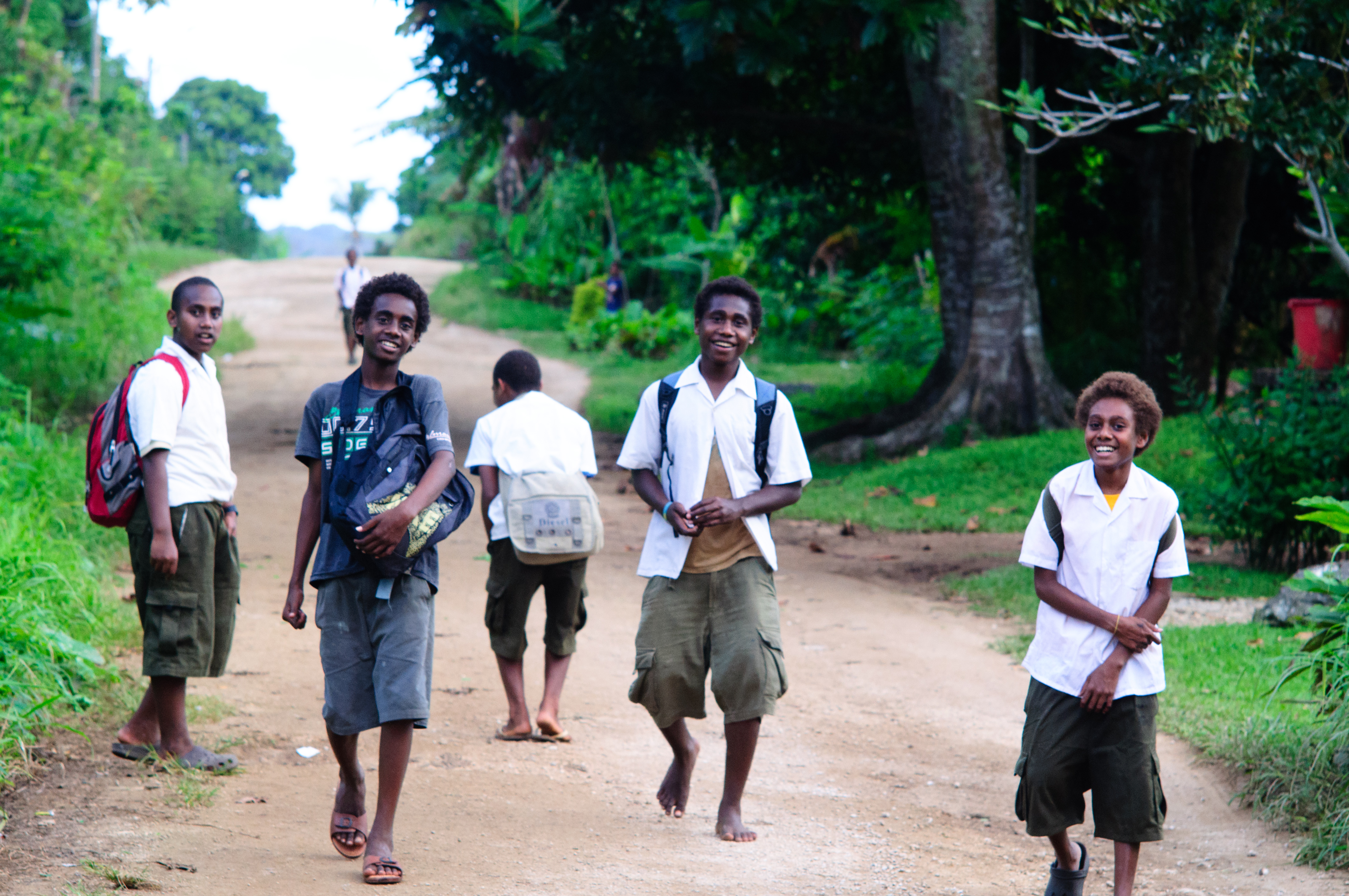 Some shots for Island Living magazine of Santo Espirito